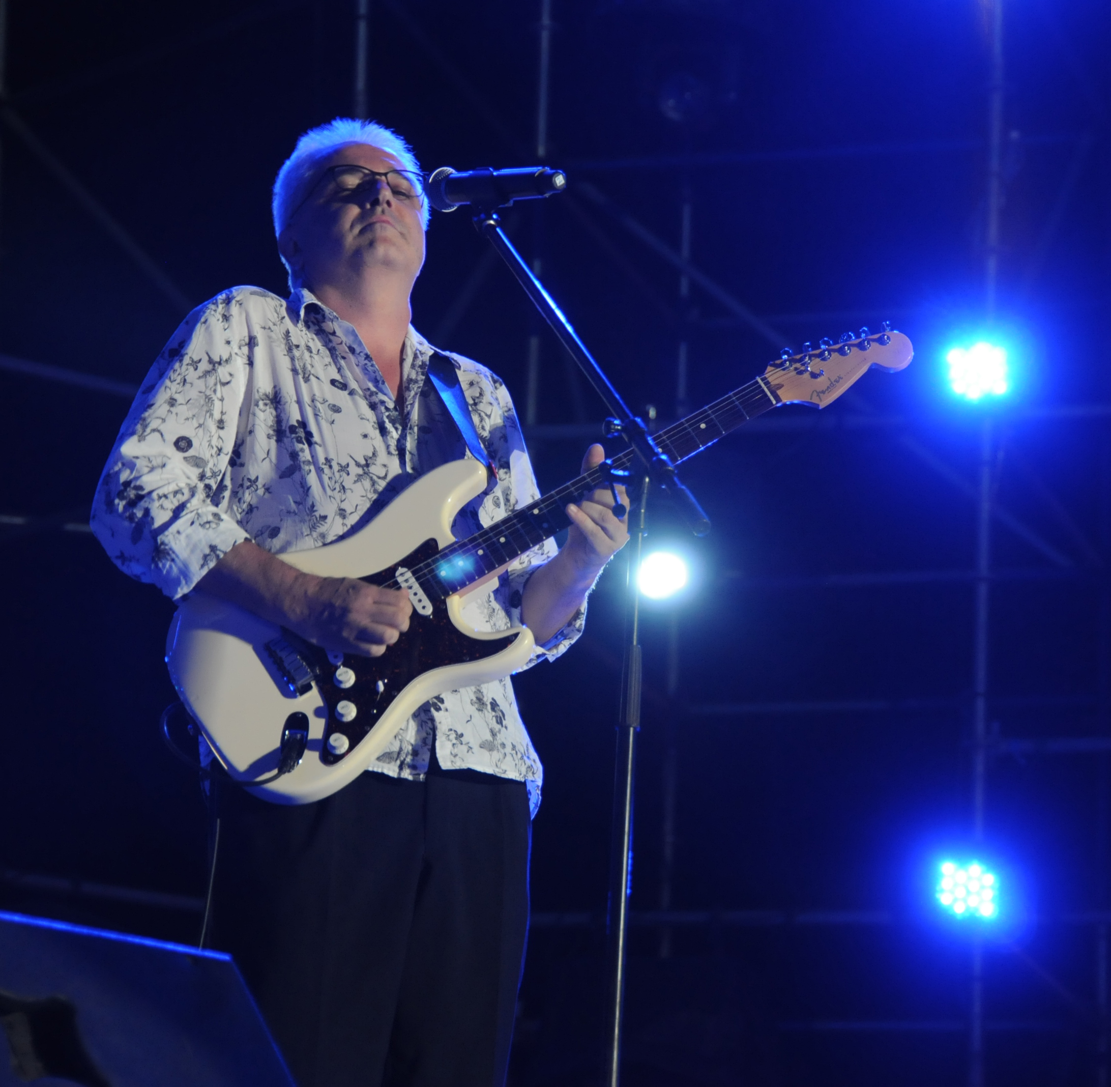 Werner Tian Fischer at Ordos Music Carnival, July 2014